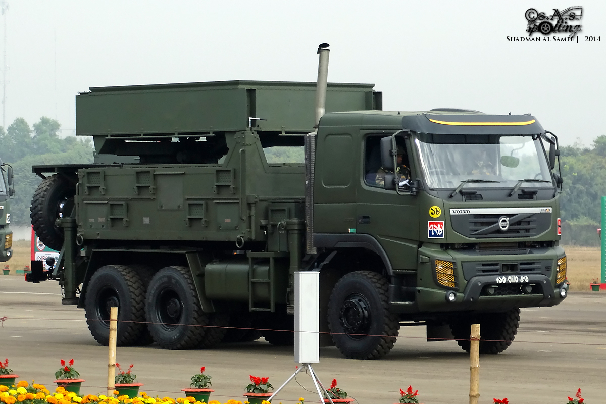 Based on Volvo FM 400 chassis, the Radar is of Chinese origin. VGTJ 2014